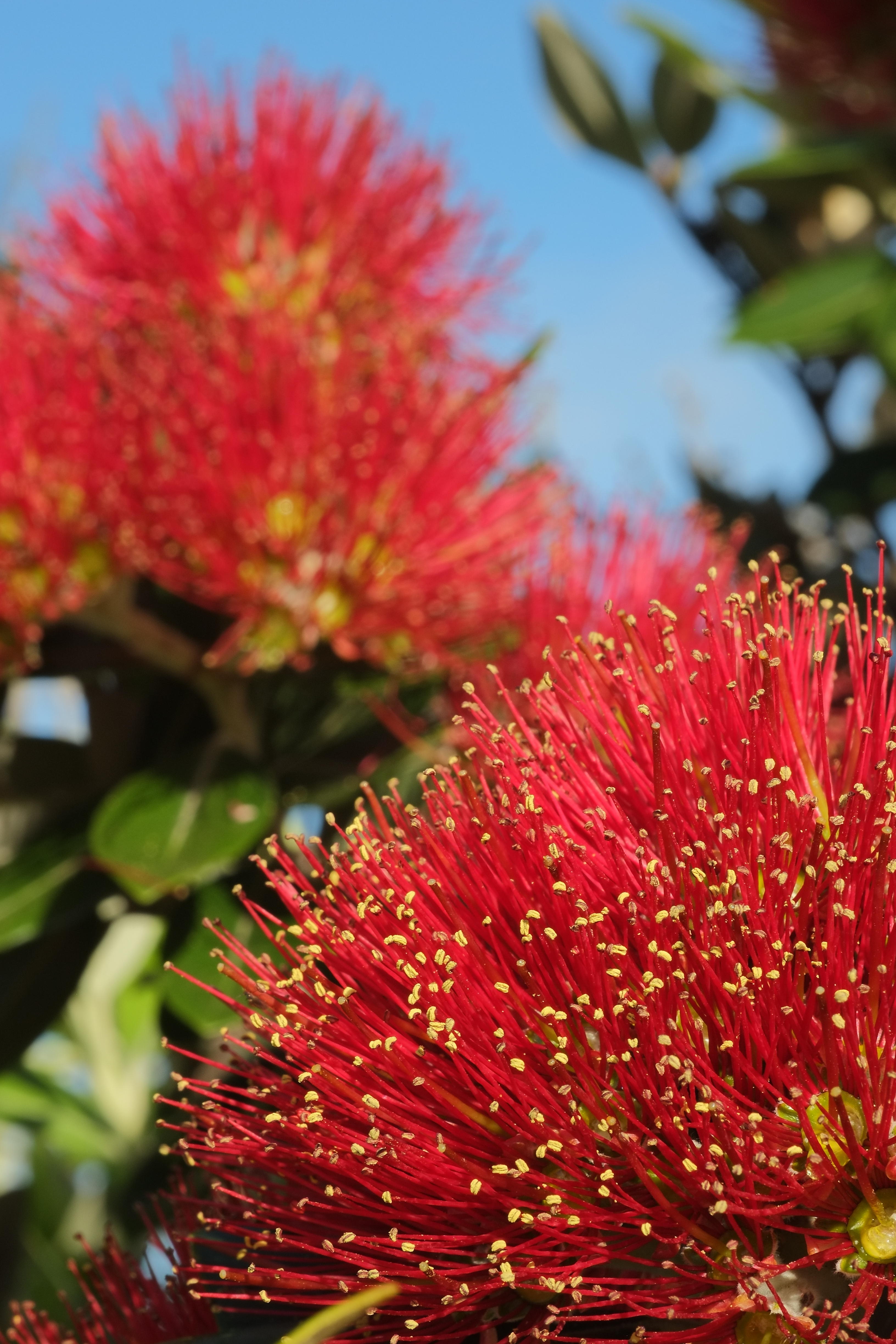 Close-up of pohutukawa flowers in full bloom at Christmas time - Pohutukawa is known as the New Zealand Christmas Tree